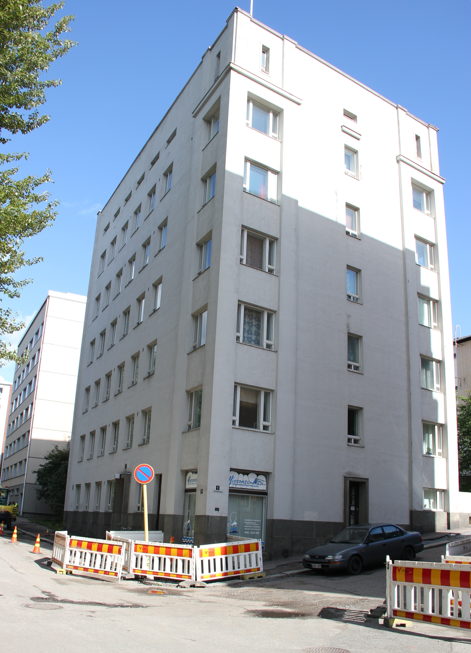 The first apartment house built in Armonkallio, in 1938